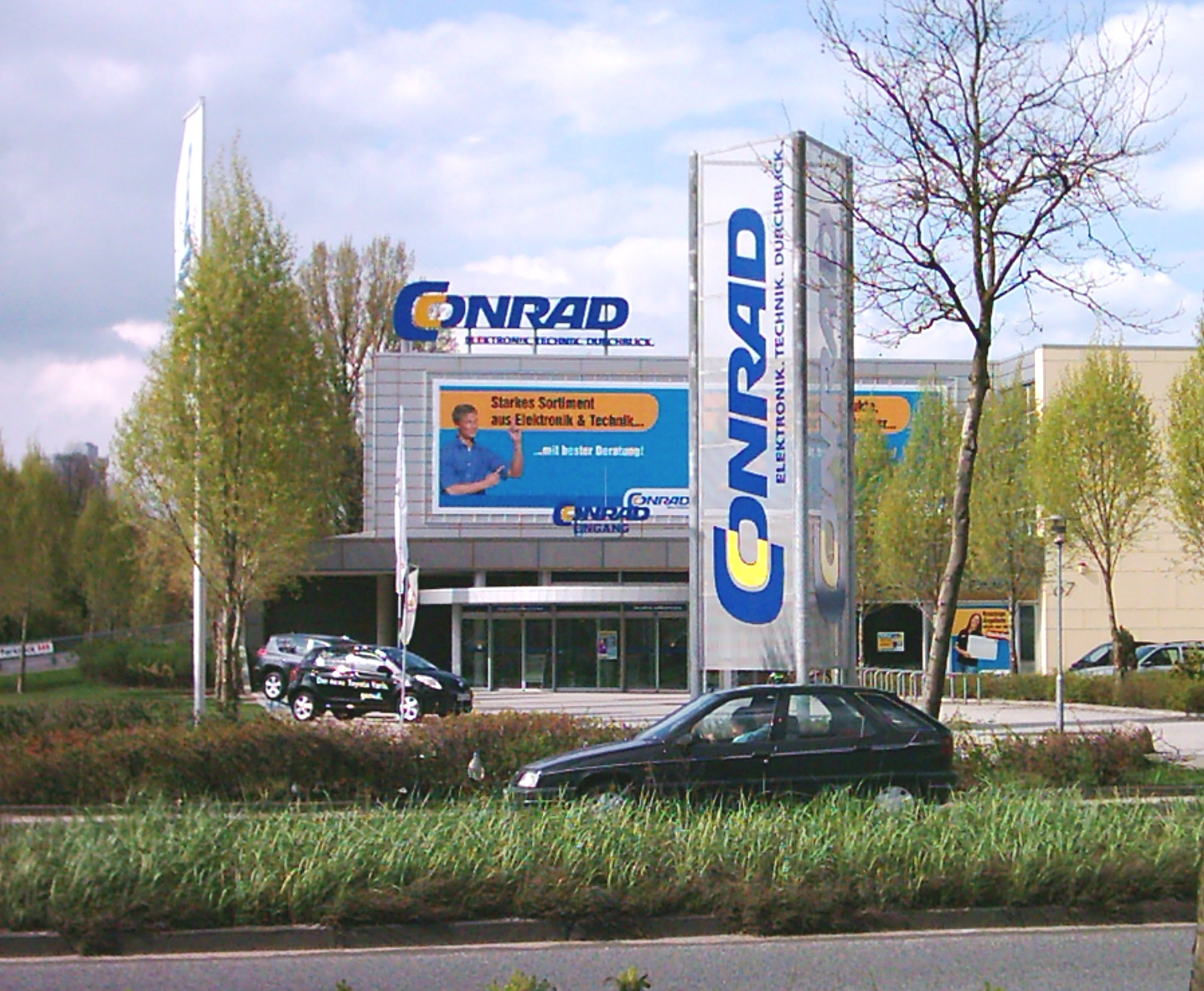 A Conrad Electronic branch in Hamburg-Wandsbek, Germany.